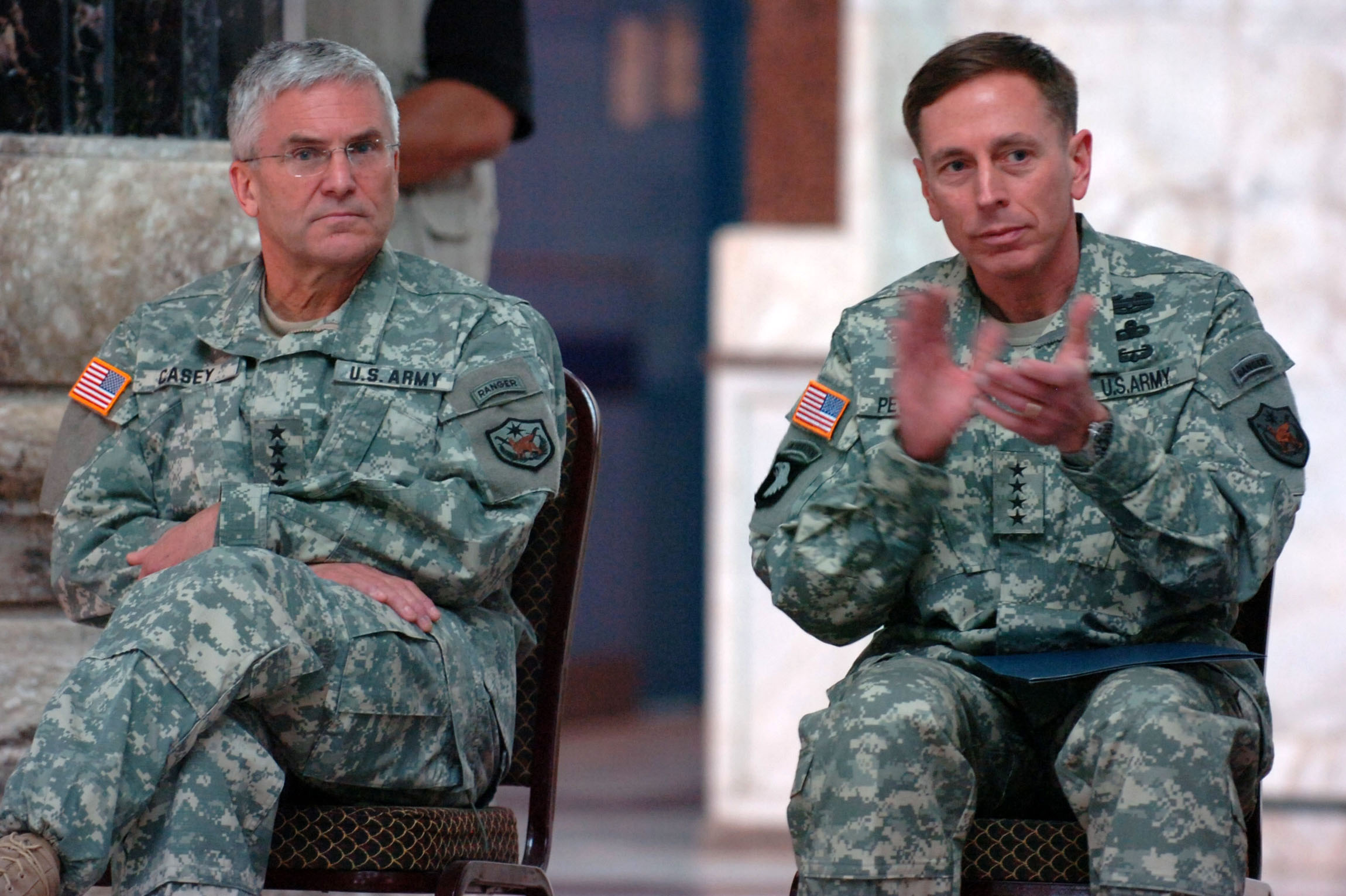 Army Gen. David H. Petraeus claps as Army Gen. George W. Casey, Jr. looks on during the Multi-National Force - Iraq change of command ceremony. During the ceremony, Casey relinquished command to Petraeus.